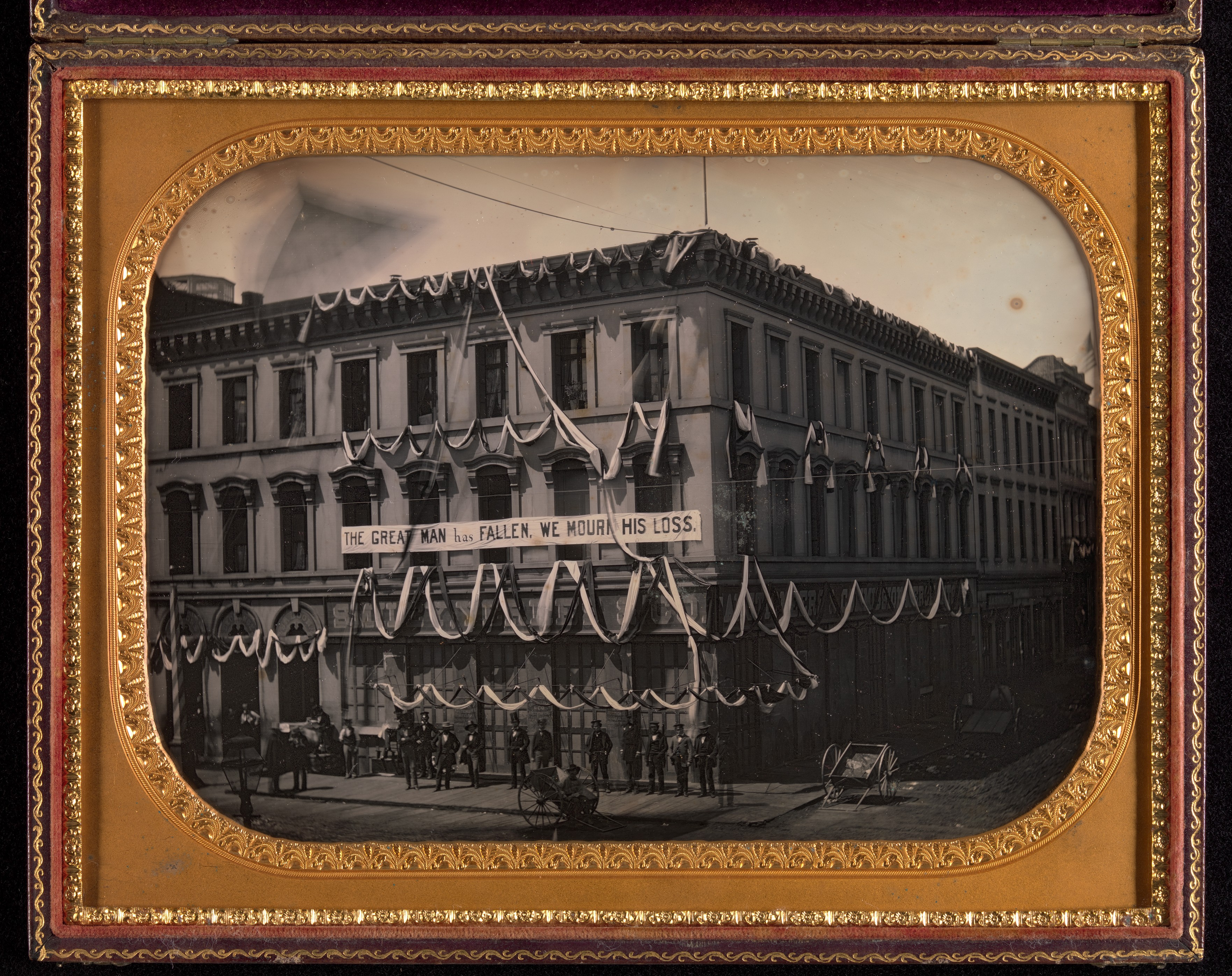 Smiley, Yerkes & Company, auctioneers and commission merchants, with a banner "The Great Man Has Fallen." It was located at the corner of Sacramento and Sansome Streets, just one block from Vance's Sacramento and Montgomery Street studio. Note: This whole plate daguerreotype is a fascinating document of frontier history. It memorializes the cruel death of James King of William, the editor of the San Francisco "Evening Bulletin," and the public lynching of his murderer, James P. Casey. On the evening of May 14, 1856, King of William (he had legally added "of William" to distinguish himself from other James Kings), a muckraking journalist who fought local vice and corruption, was shot outside his office by Casey, a local politician and rival editor of the "Sunday Times." In that day's editorial King of William had accused Casey of election fraud and of being an ex-convict who had served time in New York at Sing Sing for robbing his mistress. The city rose up in arms, and several days later, when King of William died, a mob of vigilantes removed Casey from the sheriff's office and lynched him from gallows erected on an abandoned liquor warehouse. The photograph thus documents the success of the city's second Committee of Vigilance (the first dated to 1851). In the early years of westward expansion it was customary for reputable men to organize vigilance committees to aid in the suppression of crime. Lynching was the typical penalty for transgressions that called for the most extreme form of punishment. In both 1851 and 1856, periods of wild disorder in San Francisco were ultimately terminated by the action of such groups. Smiley, Yerkes & Company, auctioneers and commission merchants, was located at the corner of Sacramento and Sansome Streets, just one block from Vance's Sacramento and Montgomery Street studio. T. J. L. Smiley was a charter member of the 1851 Committee of Vigilance (The MET).